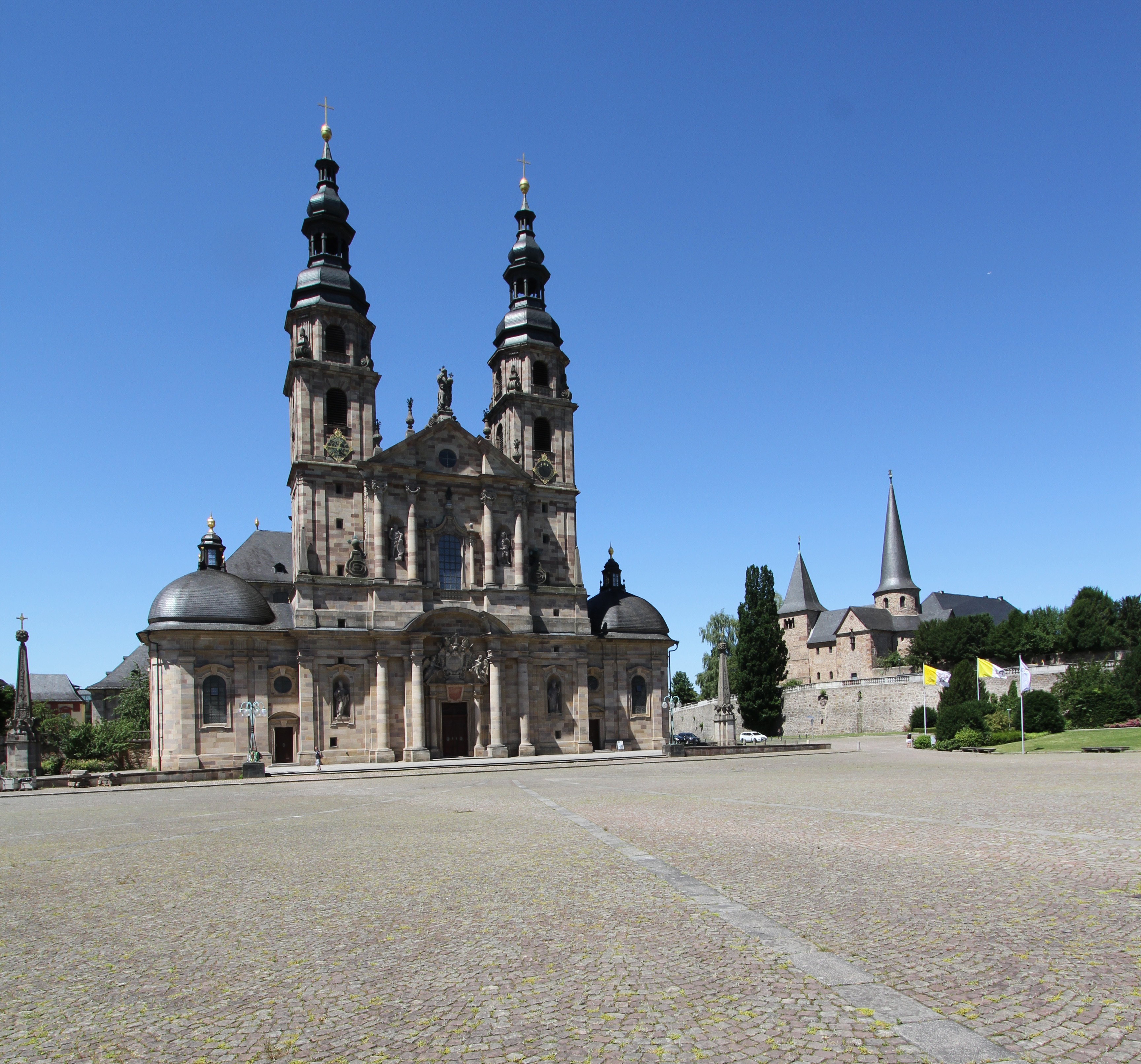 Fulda Cathedral